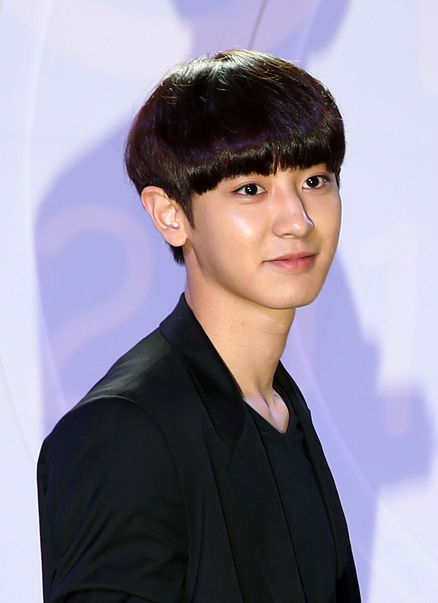 Chanyeol Park at the Fashion Kode on July 16, 2014.